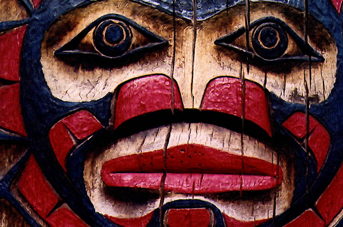 Carving in a totem pole in the Native Education Centre at Vancouver, Canada